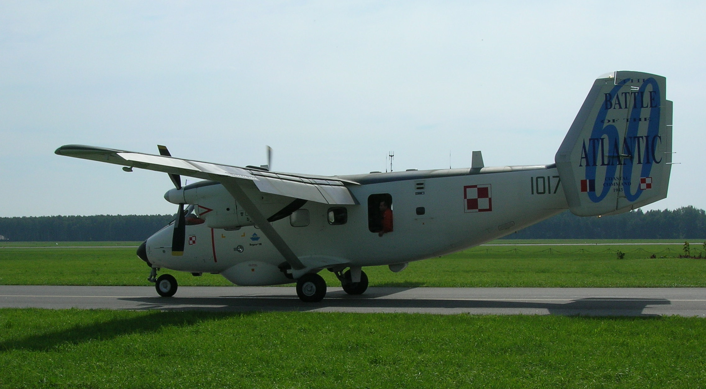 PZL M28 Bryza/Skytruck light utility/transport plane. Bryza is painted as a polish 304. Squadron bomber. Radom Airshow 2005. Author: Voytek S